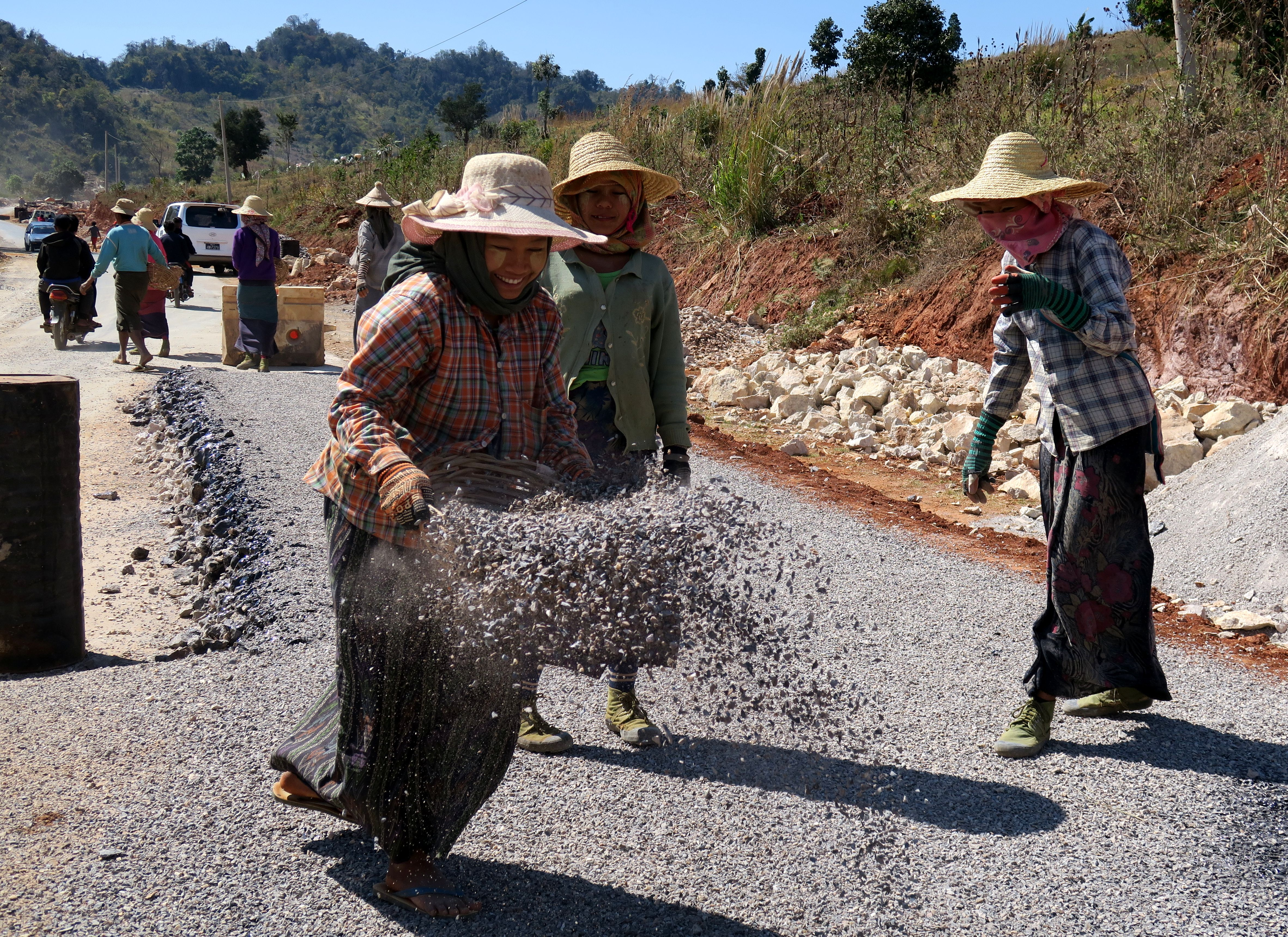 Road construction by women in Myanmar.